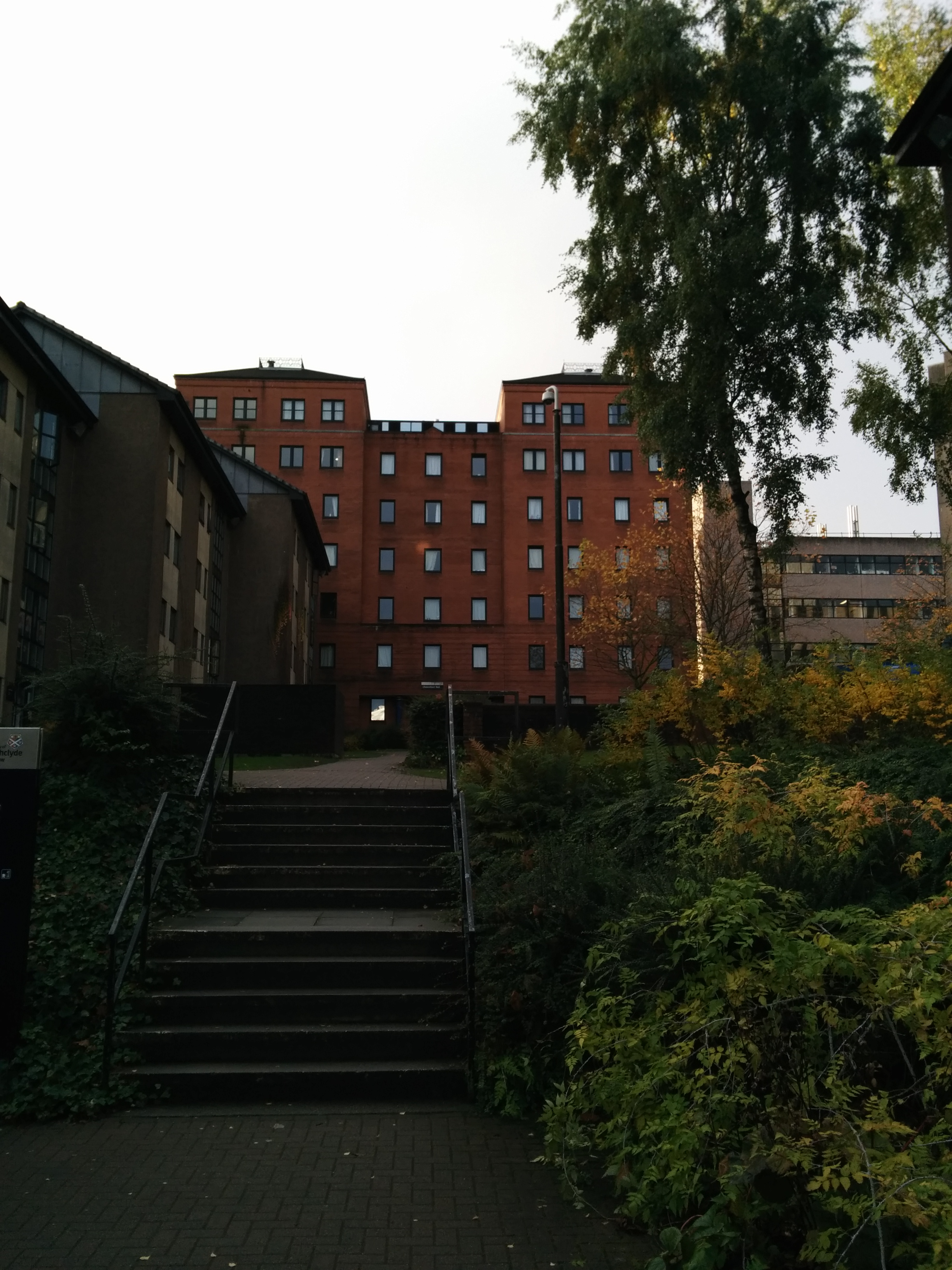 Picture of Chancellors Hall (Strathclyde)